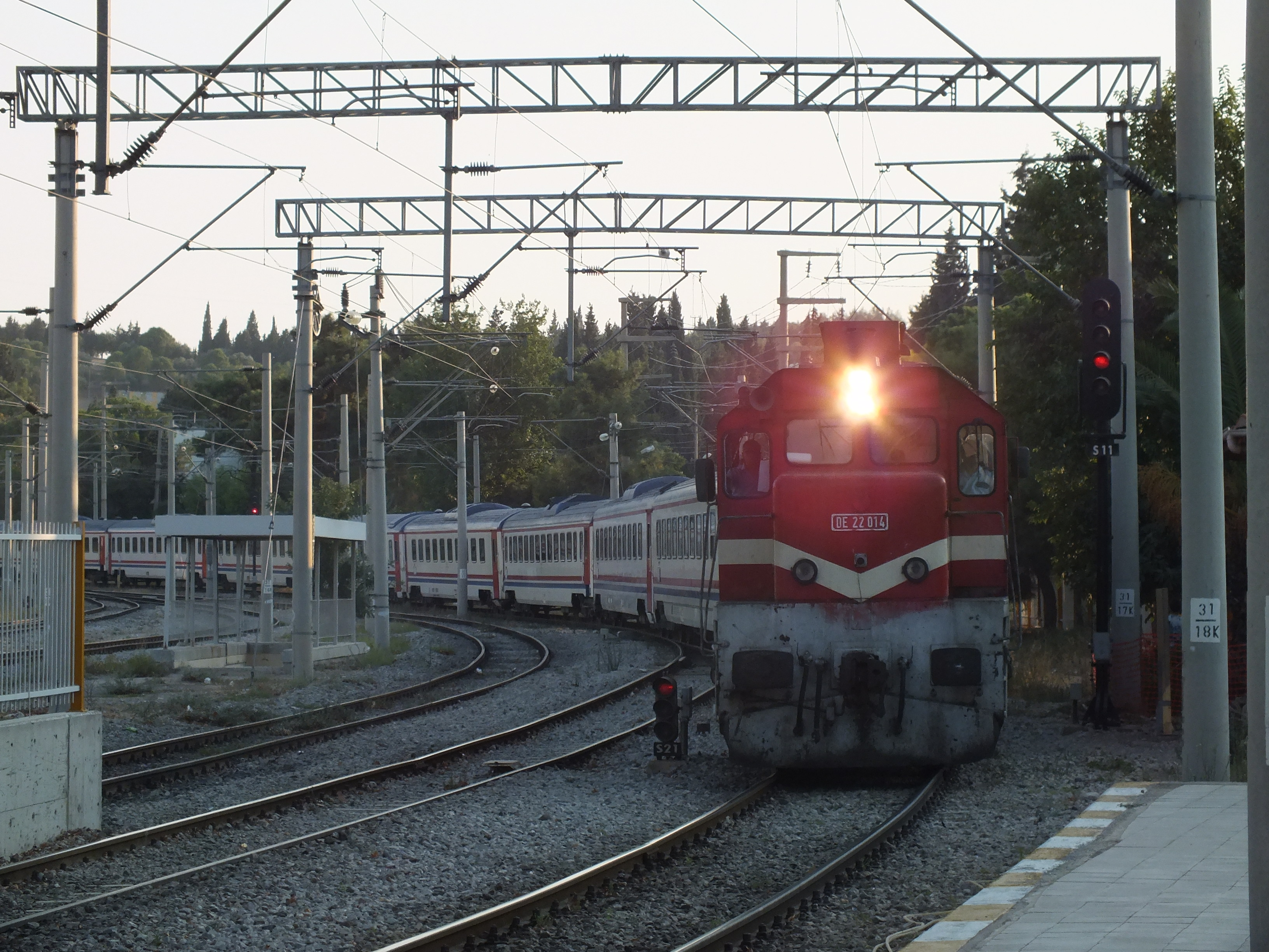 An Ankara bound Karesi Express enters Menemen station.